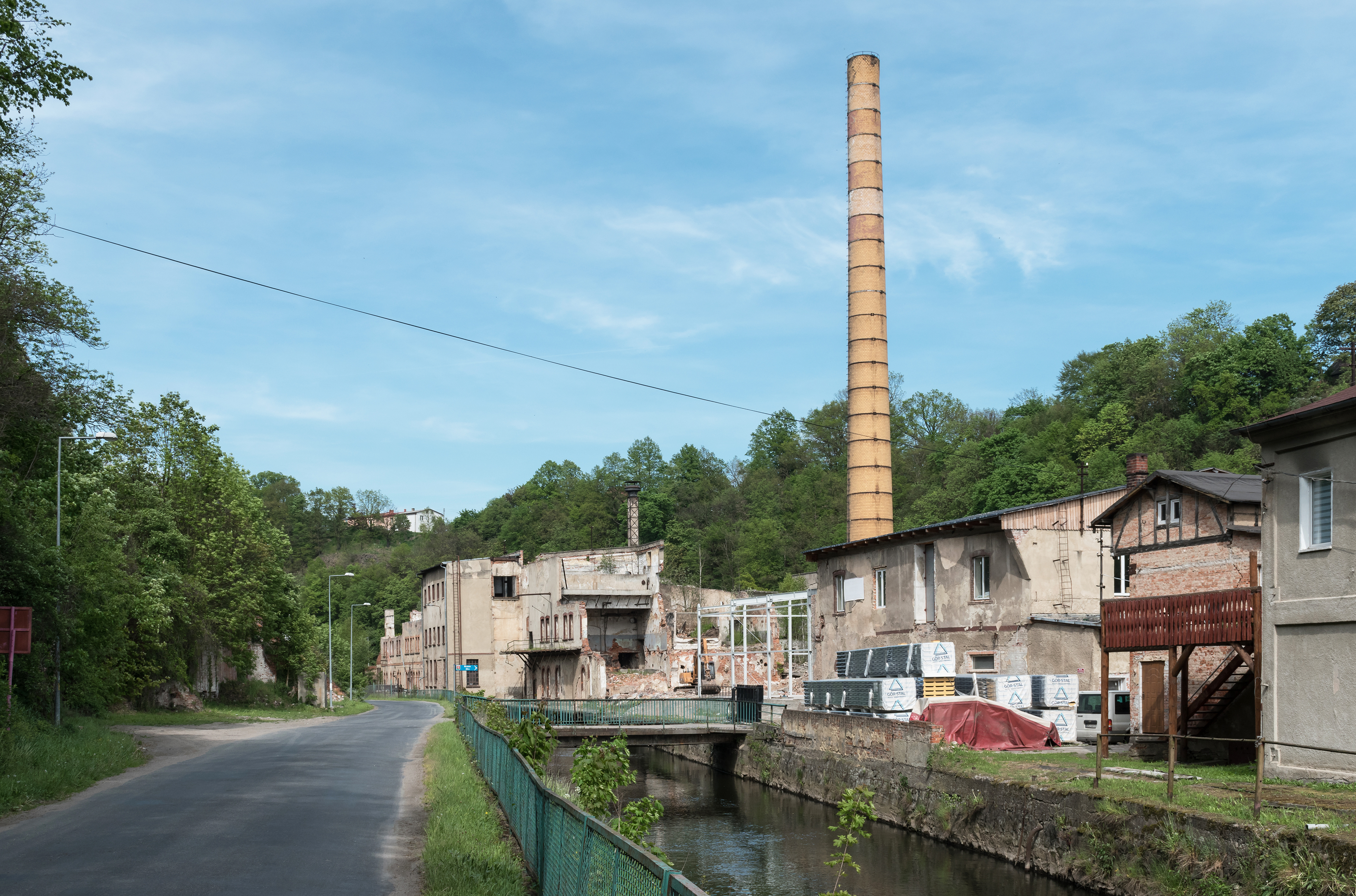 Former pulp and paper mills in Młynów